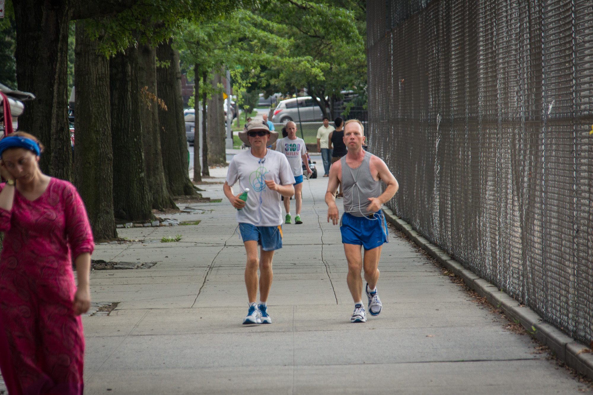 Self-Transcendence 3100 Mile Race in New York 2012.